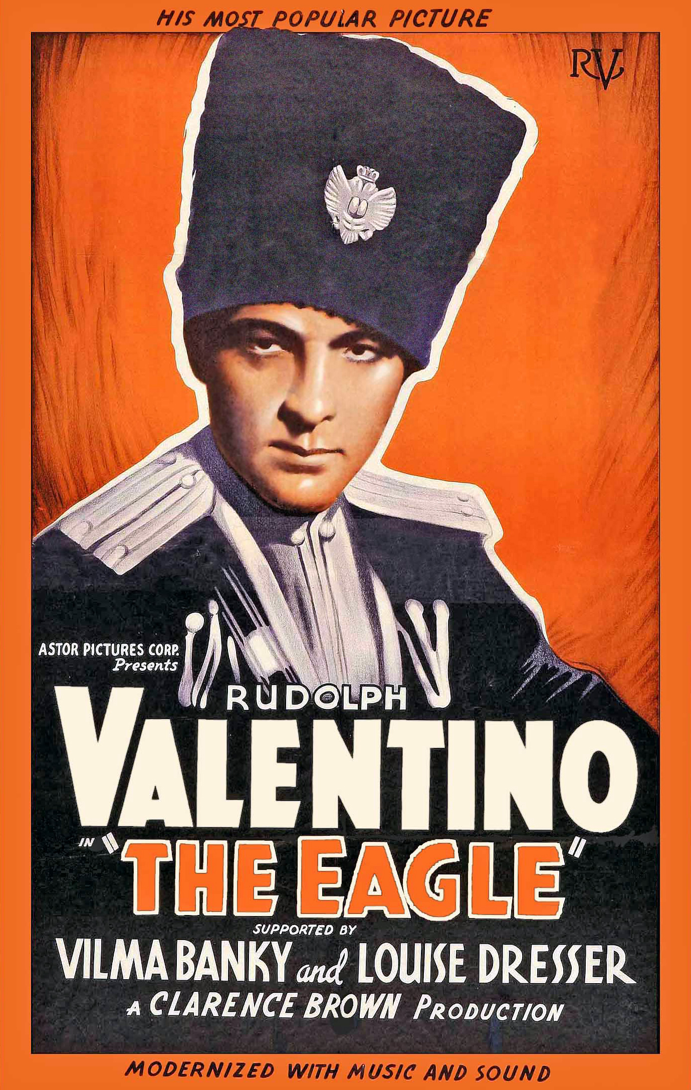 Movie poster for the film The Eagle (1925) with Rudolph Valentino.